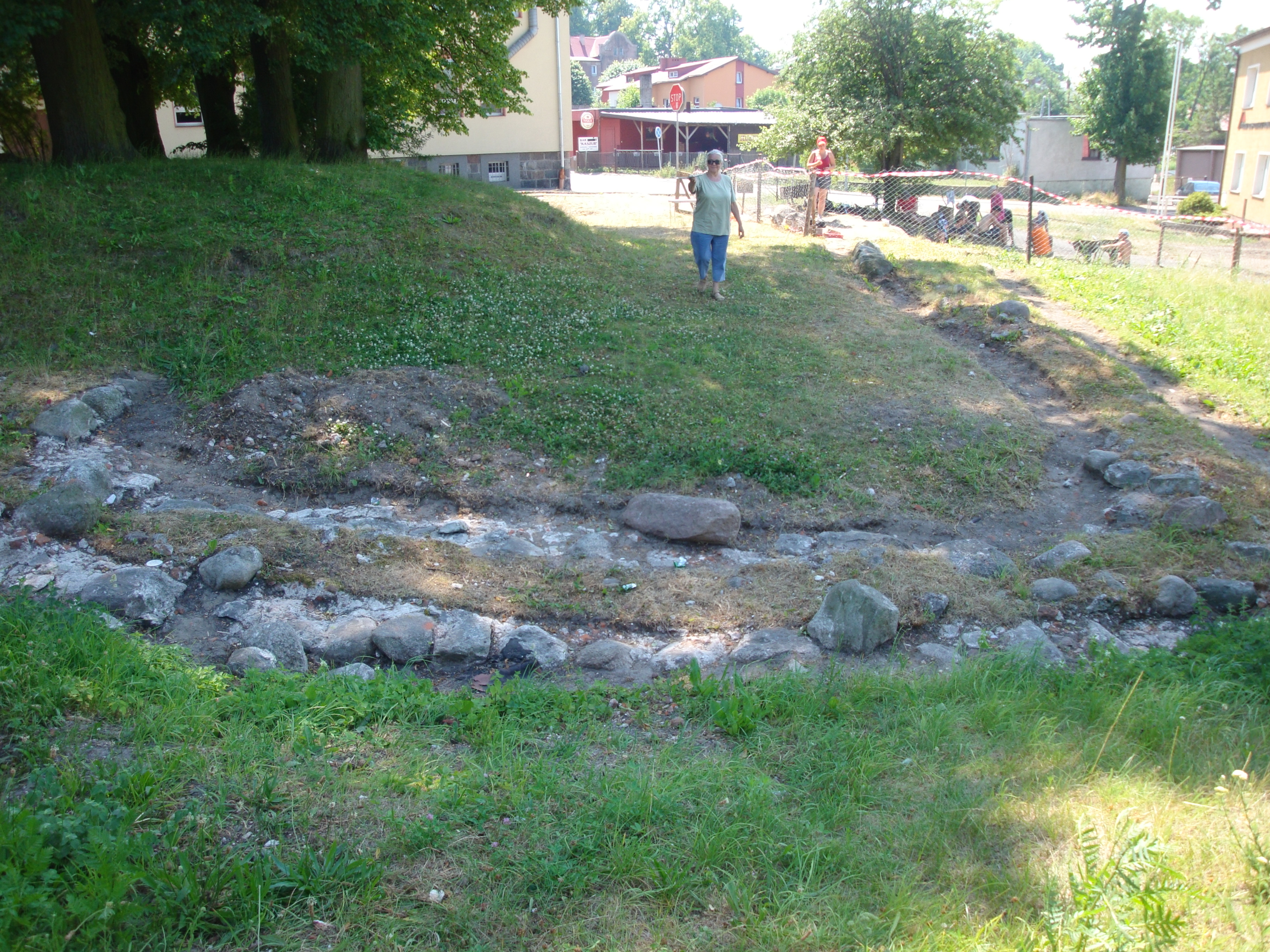 Remains of castle in Puck, Poland